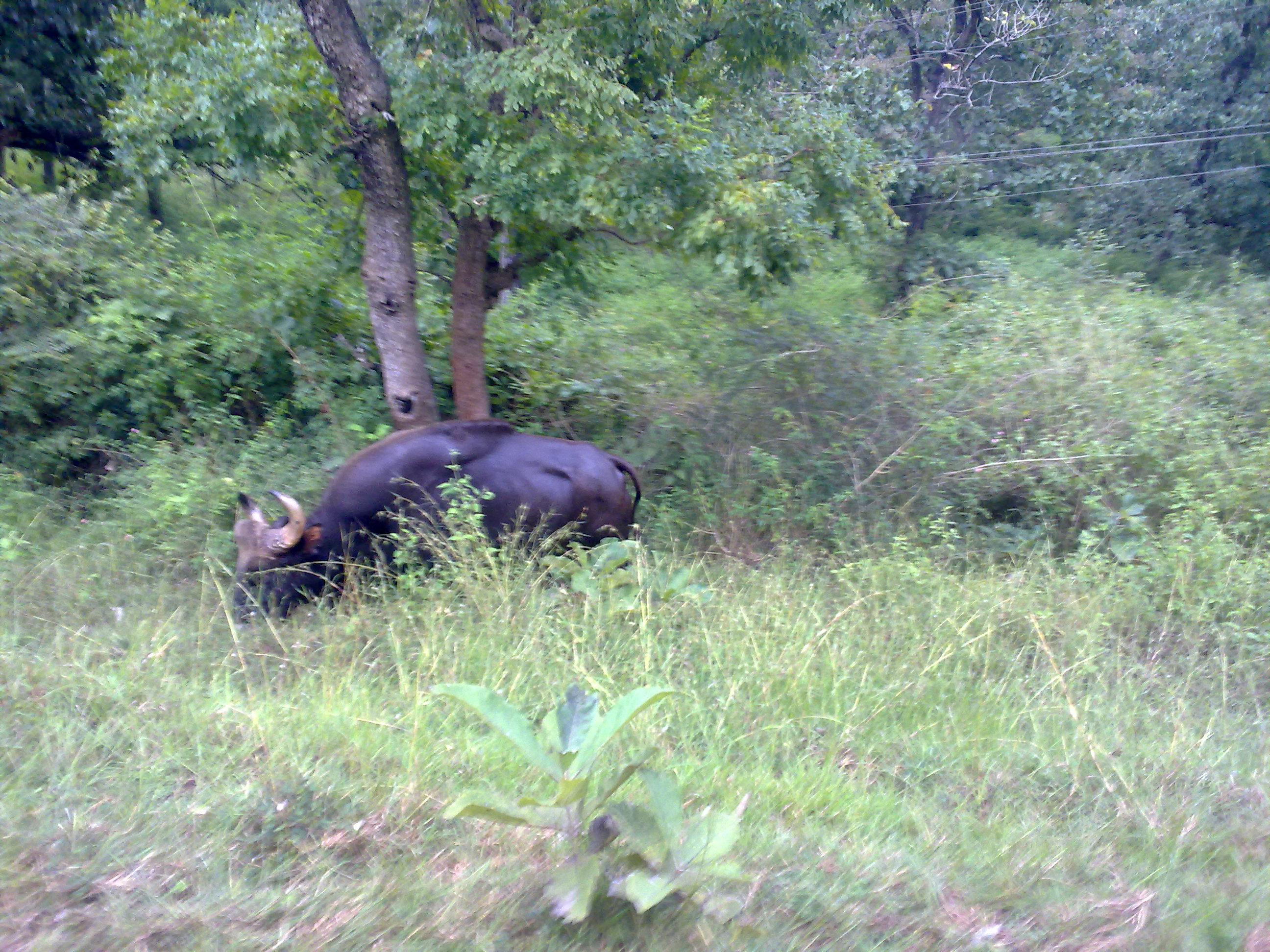 Bison in Mudumalai, Tamil Nadu, India.